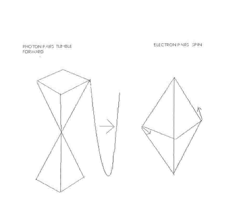 A directional photon can be absorbed into an electron shell by turning inside out into a double pyramid shaped volume of magnetic energy.